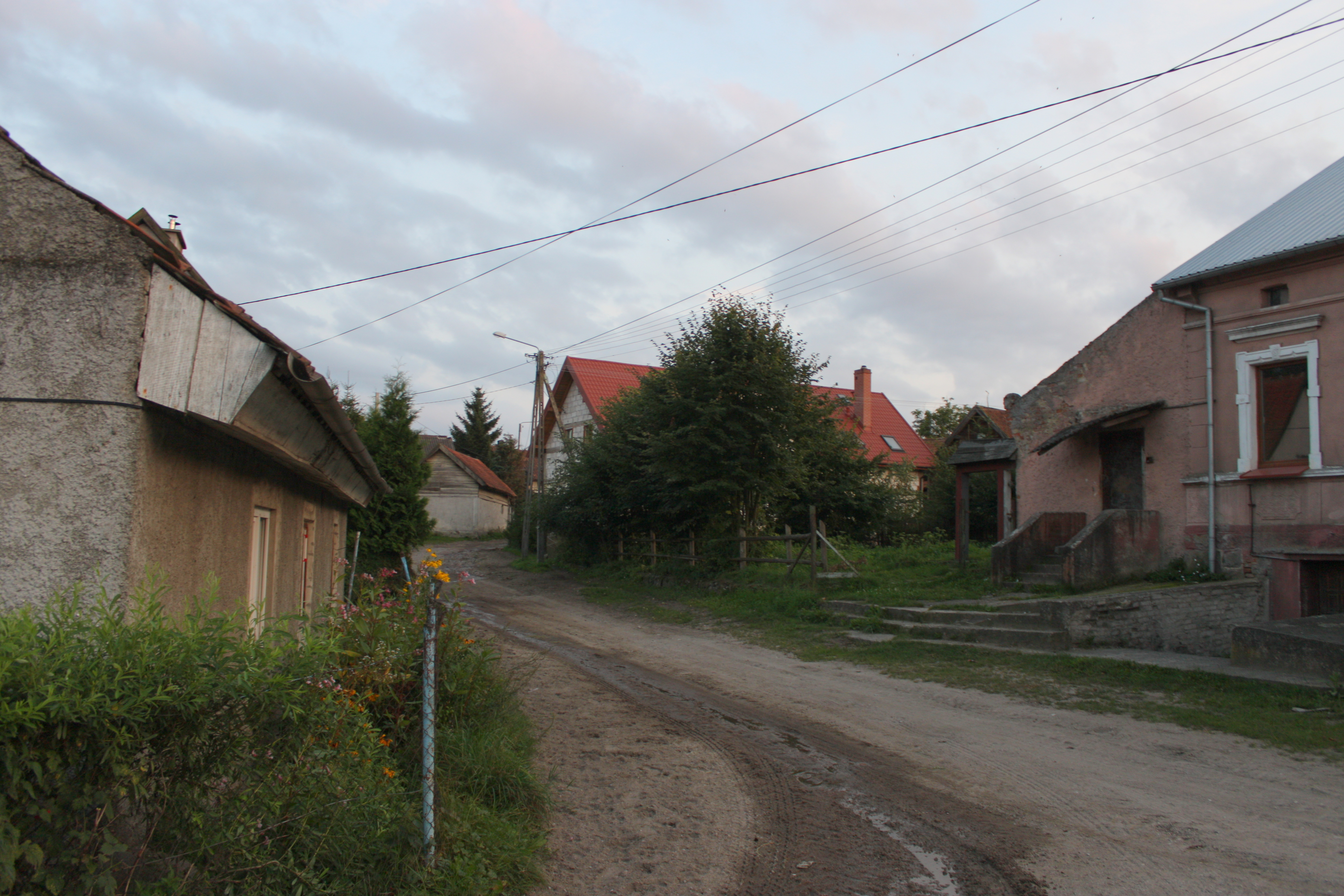 Buildings in Wierzbowo.